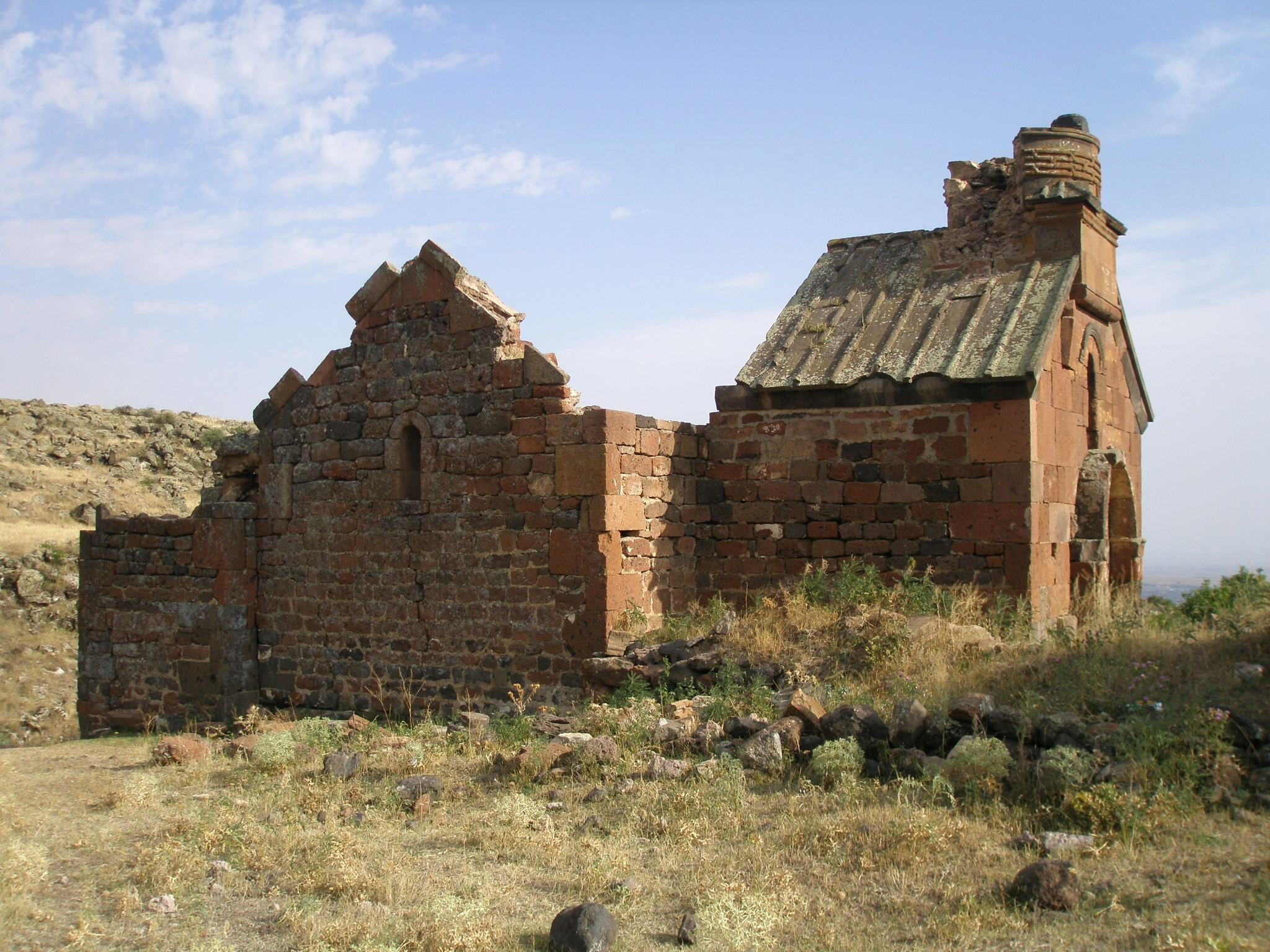 Artavazik Church north wall facade